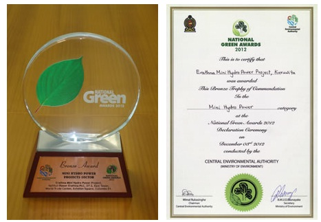 Green Award